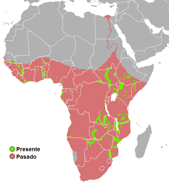 Distribution map hipopotamus